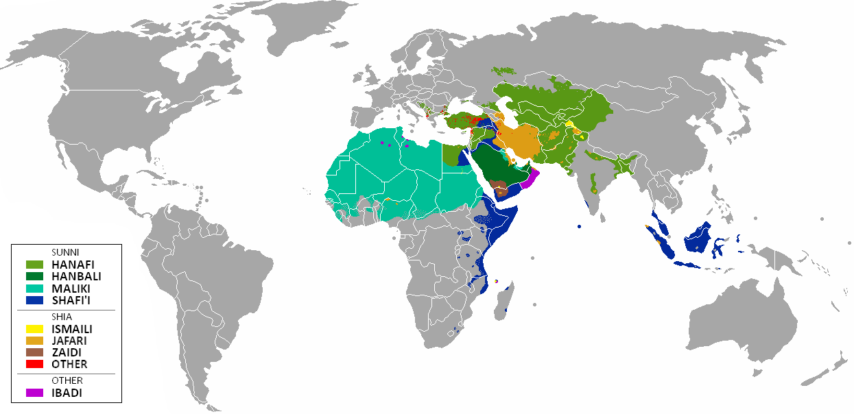 In North Caucasus shia muslims are minority and only in coastal areas of the Caspian Sea (only ethnic Azerbaijani people living there), northern parts of the Azerbaijan Republic is mostly Sunni Hanafi, In Georgia ethnic Azerbaijani people are not only Shia, but Shia and Sunni Hanafi, Shafi'i Sunni Moro people in Mindanao region, Philippines, Hui people (mostly Hanafi Muslims# in Ningxia Hui Autonomous Region, China, and 8% of Gansu and 2% of Yunnan is also Muslim, Kurds in Northern Khorasan, Iran are mostly Sunni Shafi'is, Although Crimea is a historical Muslim land, its population mostly consists of Russians now, 8% of the populatrion of Sri-Lanka is muslim Moors #Shafi'i madhab#, As per the 2004 Census in Suriname 40.4% in Commewijne, 21.7% in Wanica, 18.8% in Saramacca and 22.5% of Nickerie are muslim Former Muslim Kosovo region in Serbia is an independent state now, The population of Northern Cyprus is Sunni Hanafi Turks, Gaza strip is muslim, 30% of Bahrain muslim population is Sunni muslim #3 madhabs - Hanafi, Shafi'i and Maliki#, Roughly 80 percent of the inhabitants on the Cocos #Keeling) Islands have been Sunni Muslims, Added some mulsim areas according to 2002 census - Sandžak municipality & Pčinja District (File:Muslims_in_Serbia.png#, 88.7% of Bayan-Olgii Province, Mongolia is Sunni Muslims #ethnic Kazakhs) and approximately 12% of Khovd Province also mulsims (Kazakh and some Uzbek people), According to a survey held in 2003, only 16% of the population of Abkhazia is Muslim.